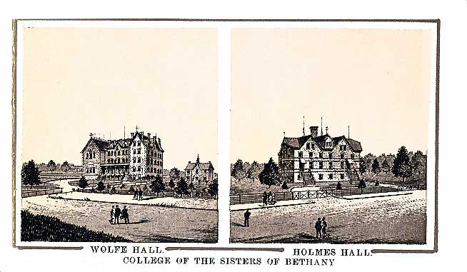 Sketches of Wolfe Hall and Holmes Hall of the College of the Sisters of Bethany in Topeka, Kansas. Copied from Kansas Eyese 1886 file.